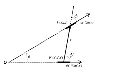 Ryan Vilbig, Powerpoint.